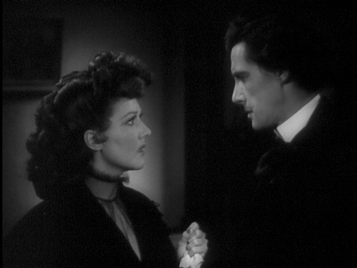 Jean Parker and John Carradine in Bluebeard (1944)